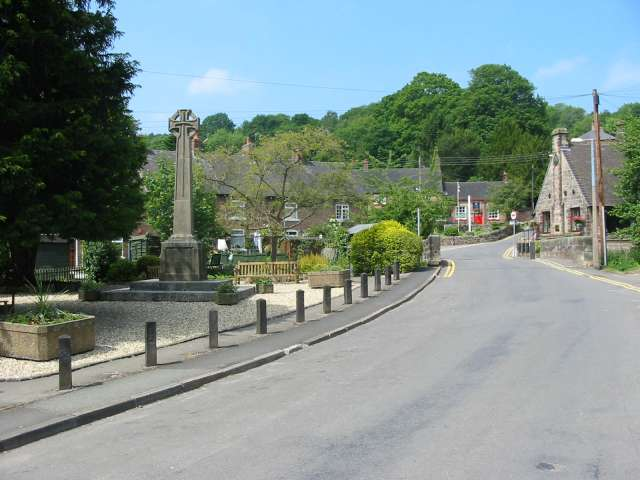 Oakamoor Village Centre Oakamoor lies in a steep wooded valley in the Staffordshire moorlands. At one time it was served by both a canal and a railway. The canal has long since gone but the railway track bed still exists. To the south the track is now a pleasant multi-user trail to Alton. To the northwest the it connects to the Churnet Valley preserved railway with the prospect that one day the line might be extended once more into Oakamoor.